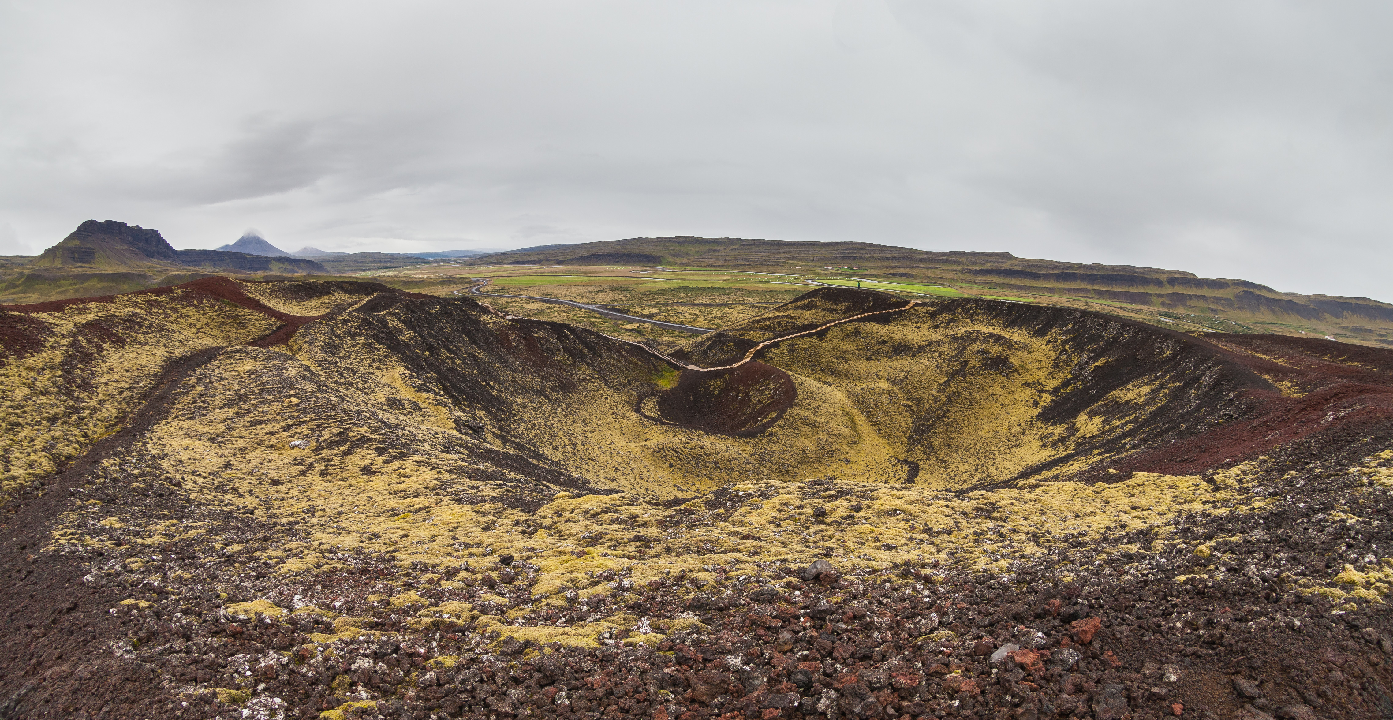 Stóri Grábrók crater, Vesturland, Iceland